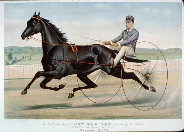 "Celebrated trotter Jay Eye See, driven by Ed. Bithers: By Dictator, dam Midnight, by Pilot Jr." Lithographic print commemorating the setting of the mile trotting record in harness racing of two minutes and ten seconds. Although the record was broken the next day, the horse's owner, Jerome Increase Case and his J.I. Case company, used the image to promote agriculural machinery for years. The horse lived from 1878 to 1909.